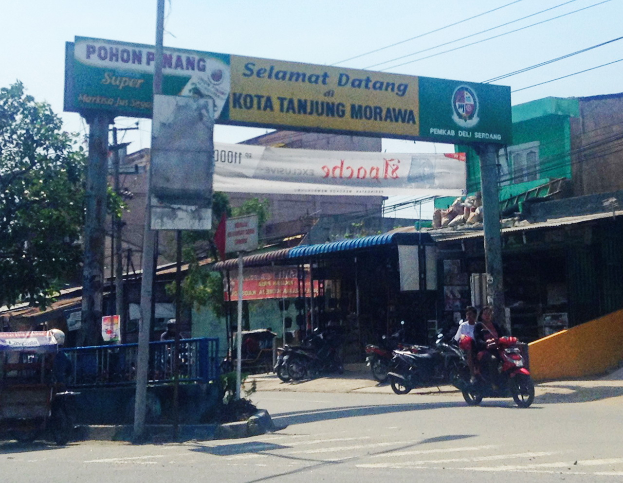 Welcome Gate to Tanjung Morawa, Deli Serdang